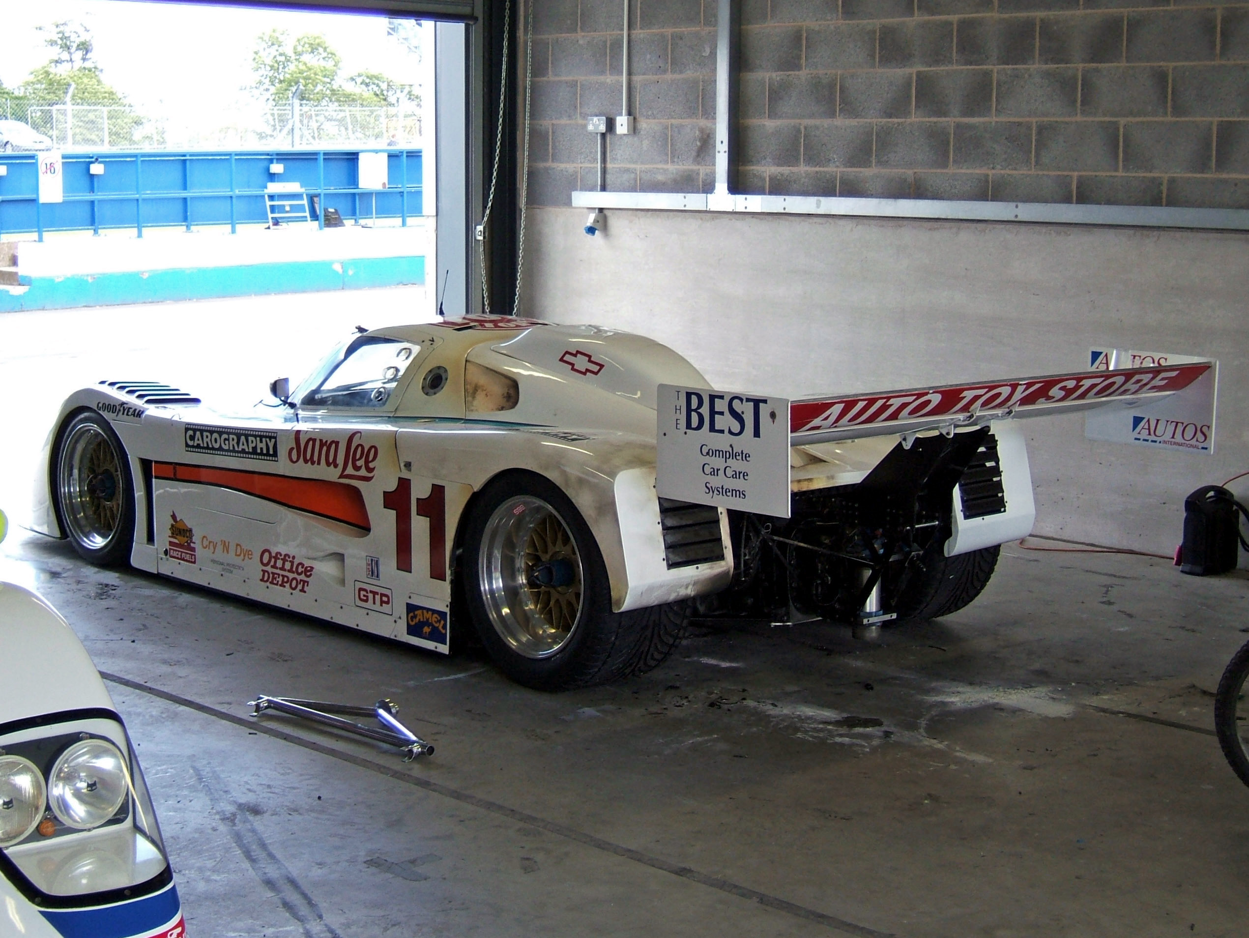 A Spice SE90 Chevrolet IMSA car, waiting in the pit garages during the VSCC SeeRed race meeting, Donington Park, September 2007. The rear end shows plenty of blackened paint and charred bodywork, evidence of the car's engine fire earlier in the event.